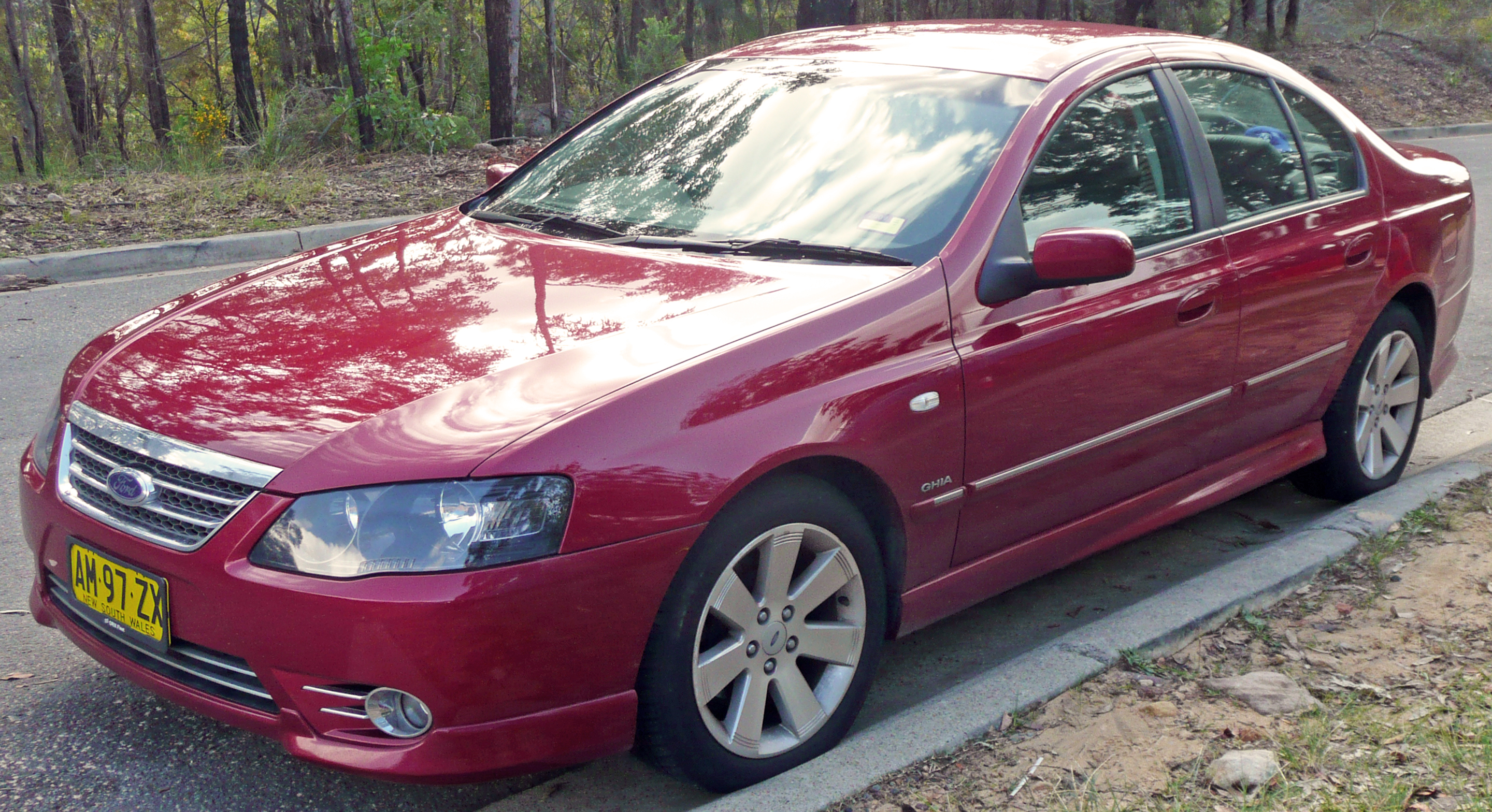 2006 Ford Fairmont (BF II) Ghia sedan. Photographed in New South Wales, Australia.